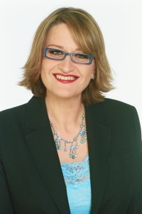 Photograph of Elonka Dunin